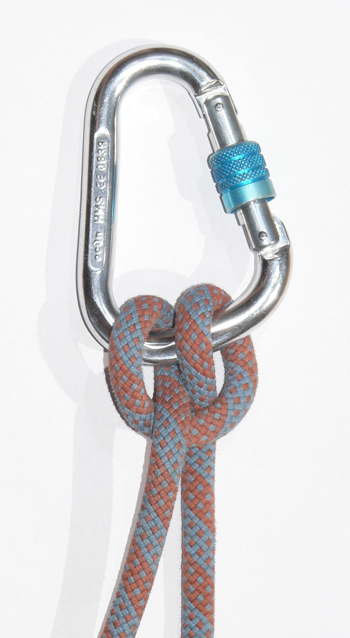 A clove hitch formed in the bight and slipped onto a carabiner.